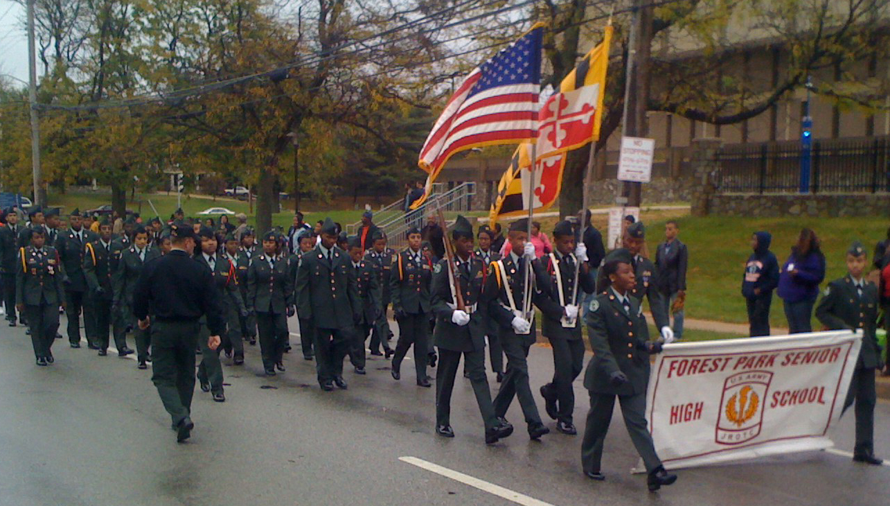 forest park rotc